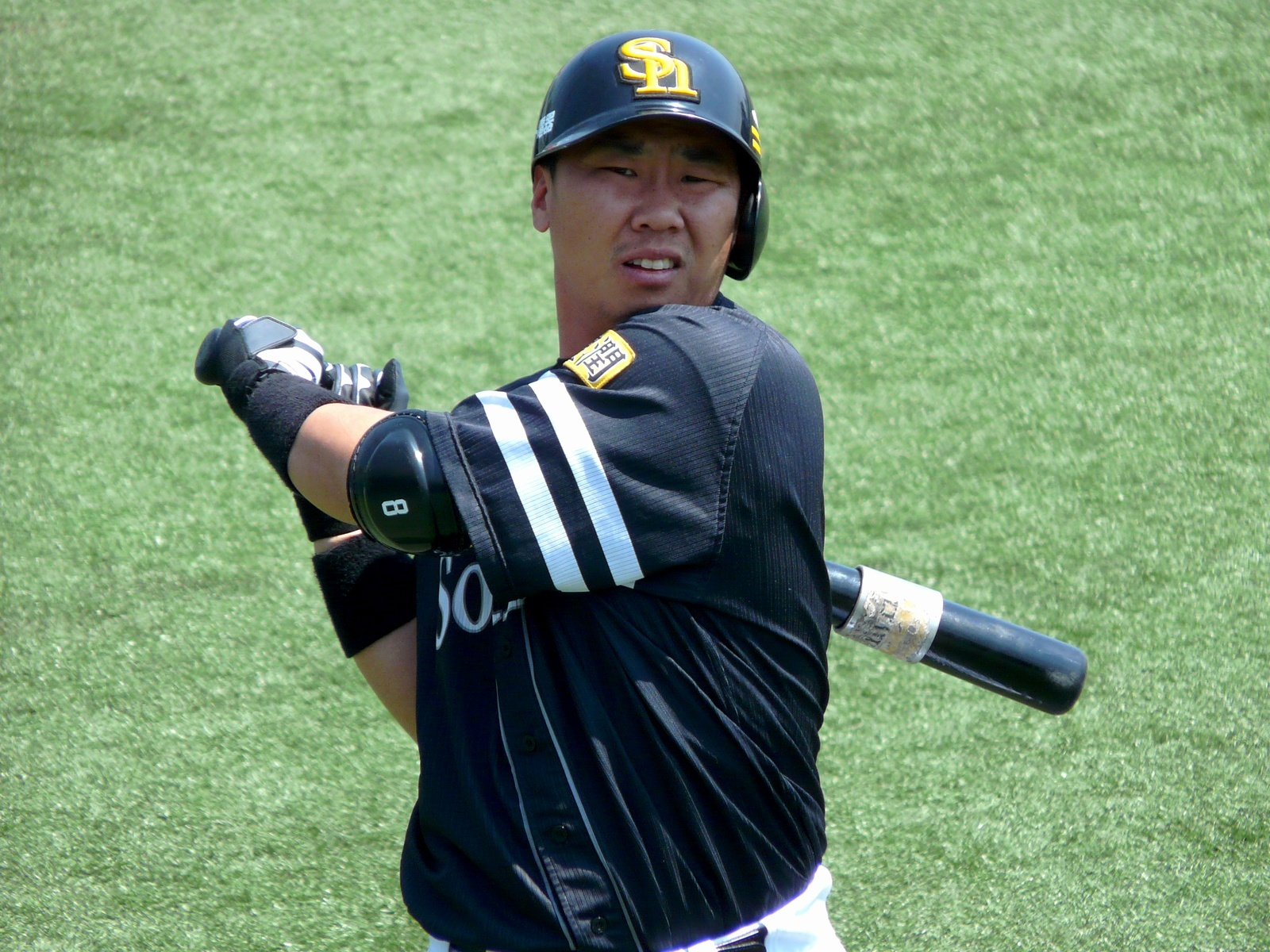 SH-Yi-Beom-ho20100605